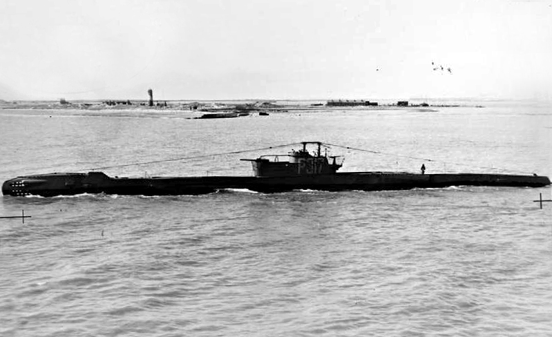 British T class submarine HMSM TALLY-HO underway off Barrow.